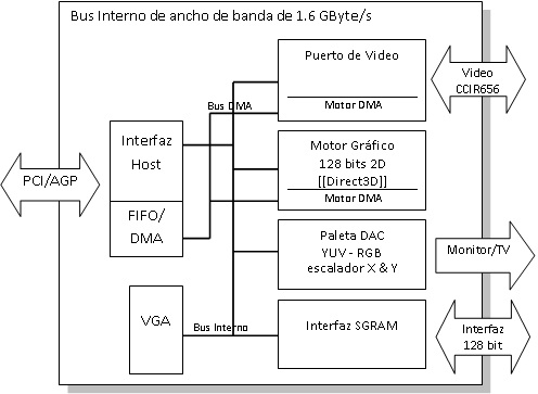 Block diagram of RIVA 128